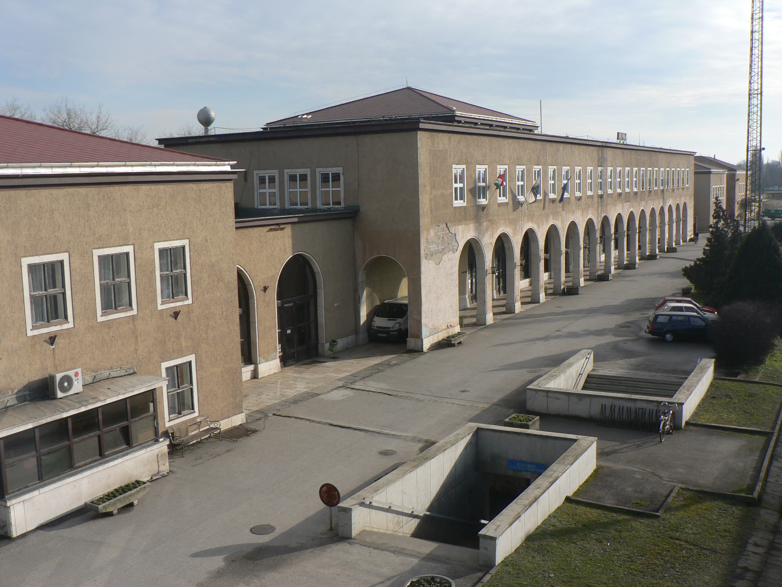 Hatvan (HU) - Railway station